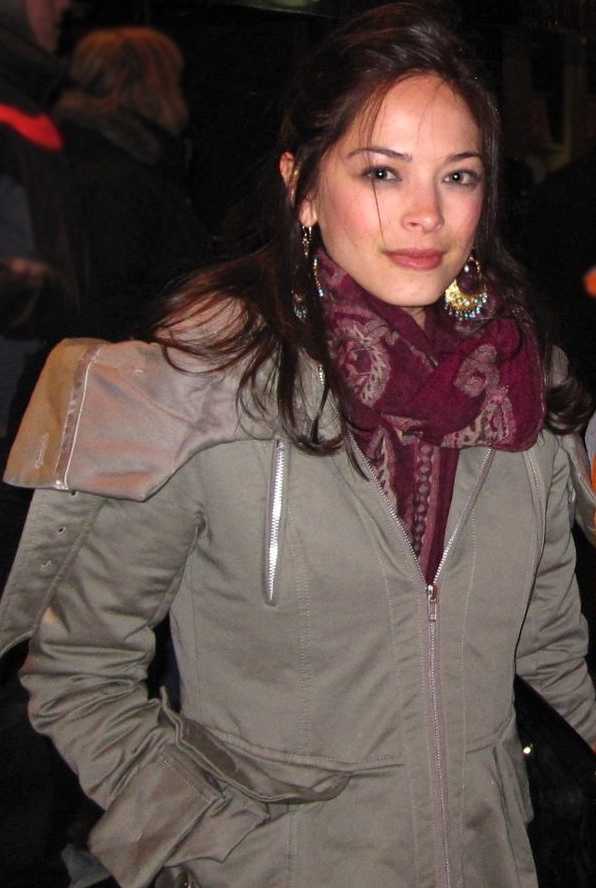 Canadian actress Kristin Kreuk from Smallville